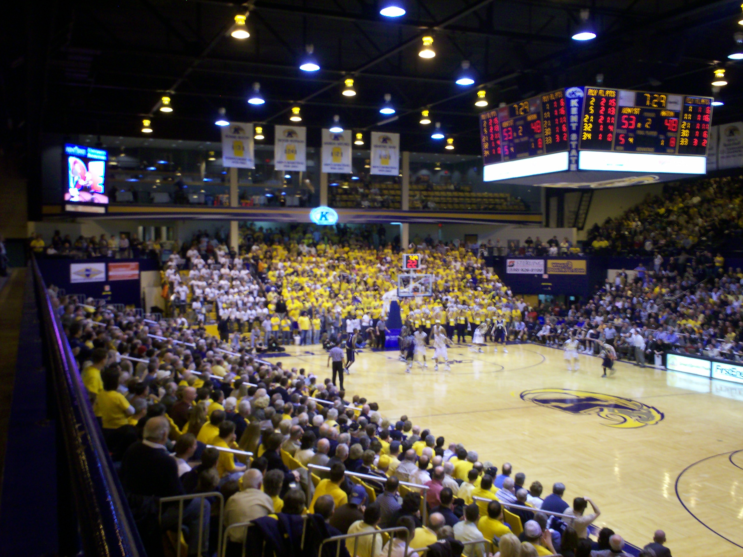 Interior view of the Memorial Athletic and Convocation Center in Kent, Ohio.